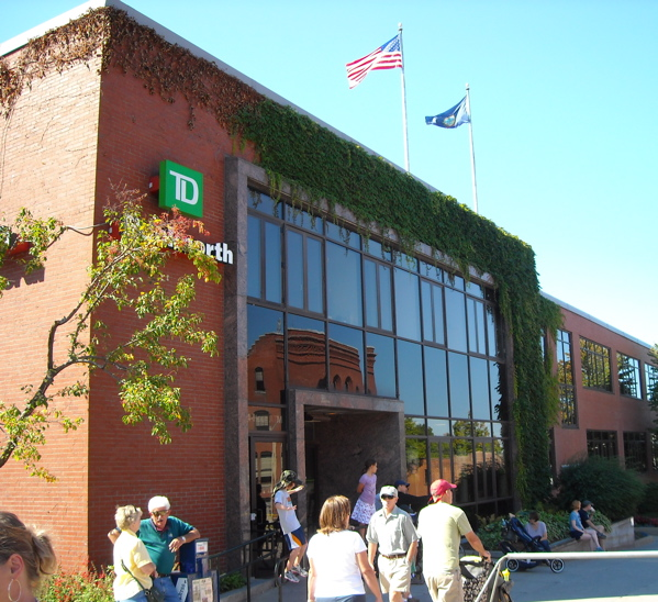 TD Banknorth building in Burlington, VT